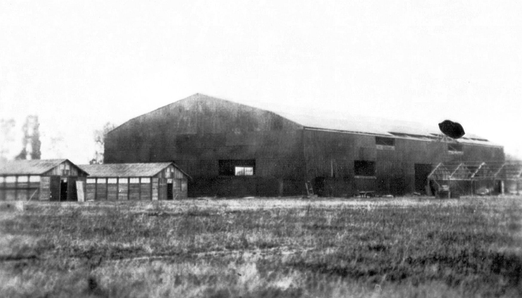 Romorantin Aerodrome - Balloon Hangar